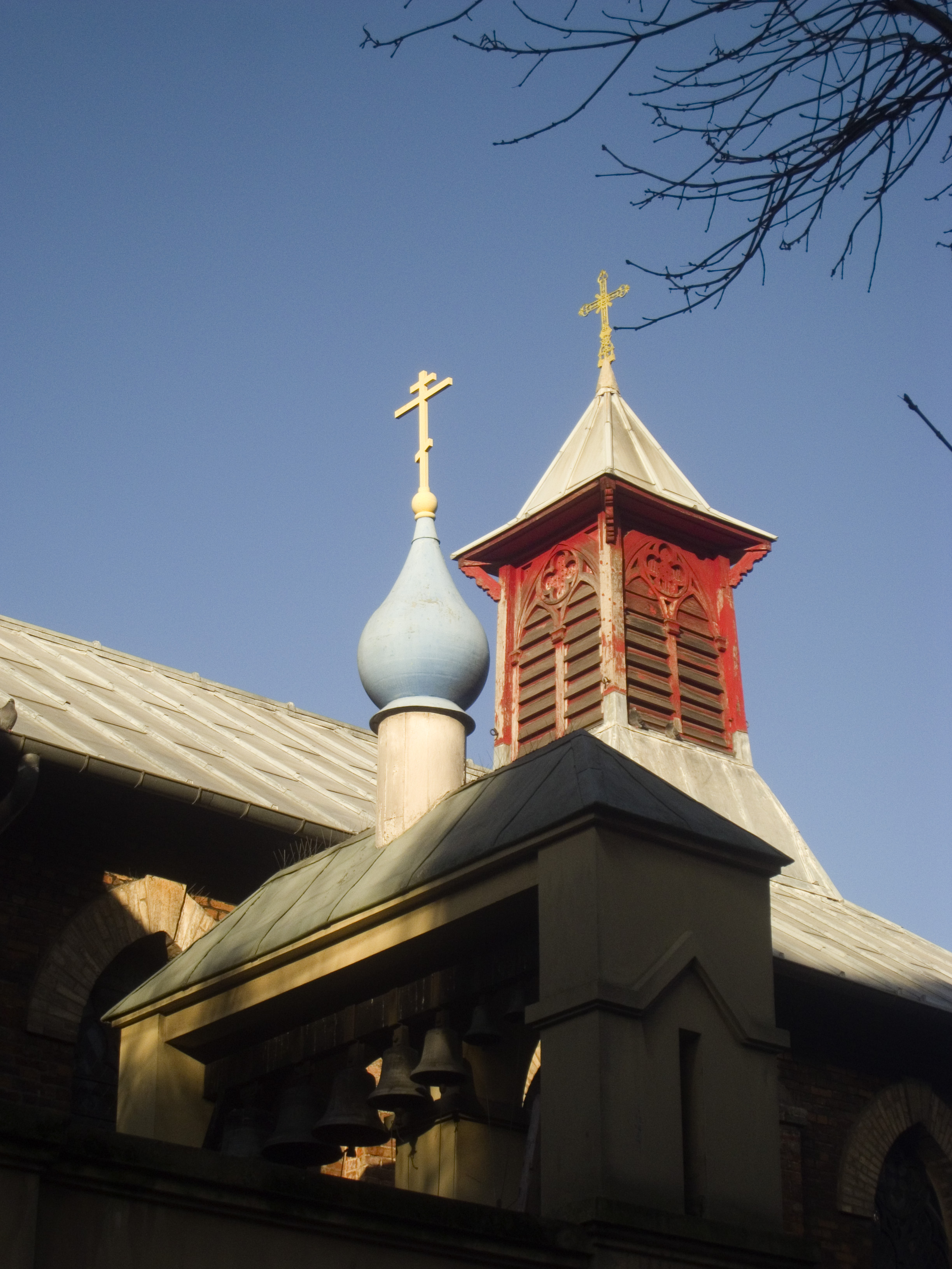 Paris, Orthodox church Saint Sergius (Saint-Serge): bells. Original description from Flickr page: J'aime bien les bulbes.